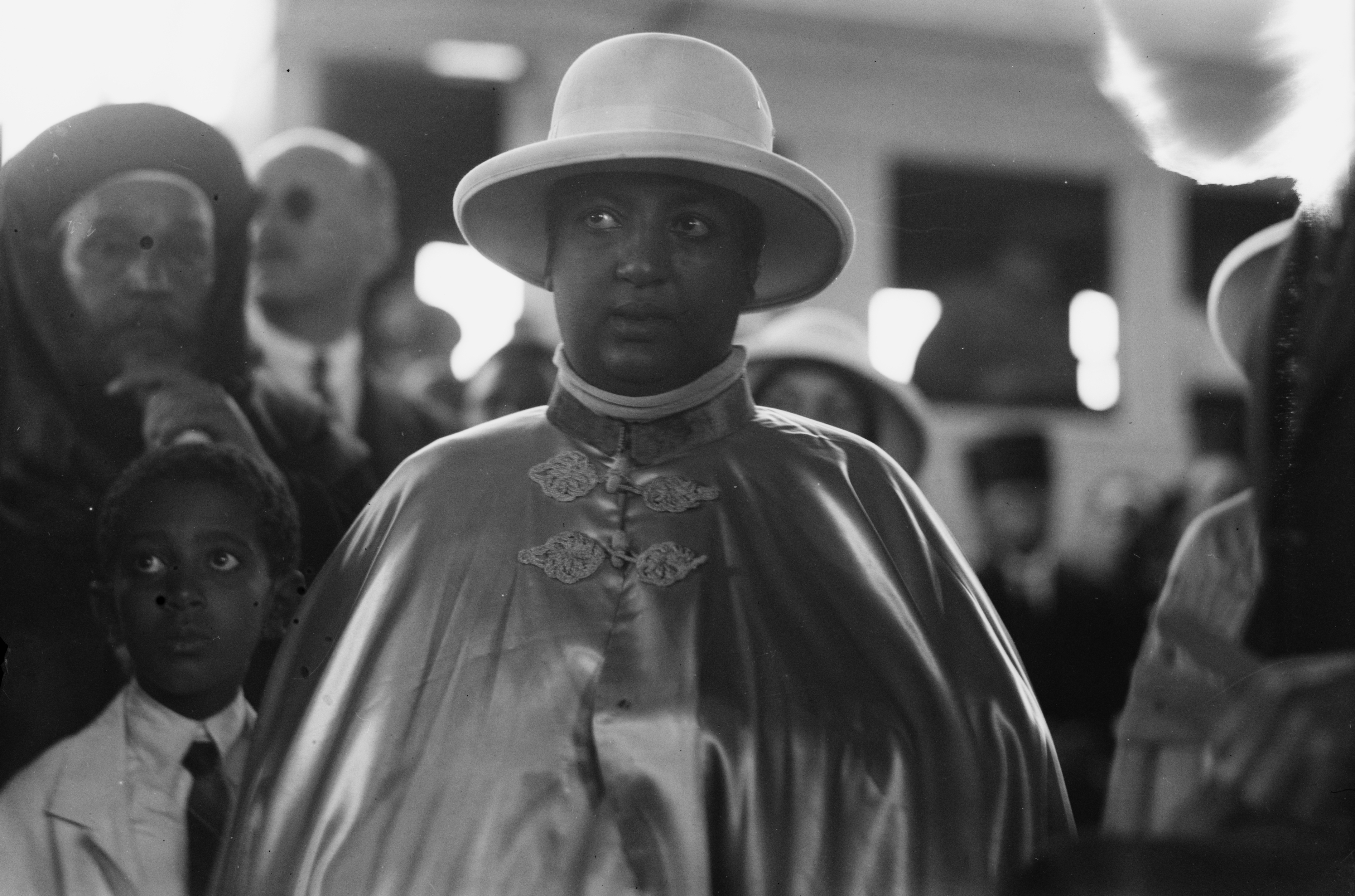 Menen Asfaw, Queen of Abyssinia, September 26, 1933. Photograph shows Empress Menen Asfaw (1883-1962), wife of Emperor Haile Selassie of Ethiopia probably in Jerusalem.